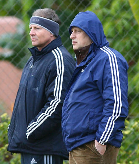 Vlastimil Petržela (left) and Sergei Fursenko in FC Zenit Saint Petersburg